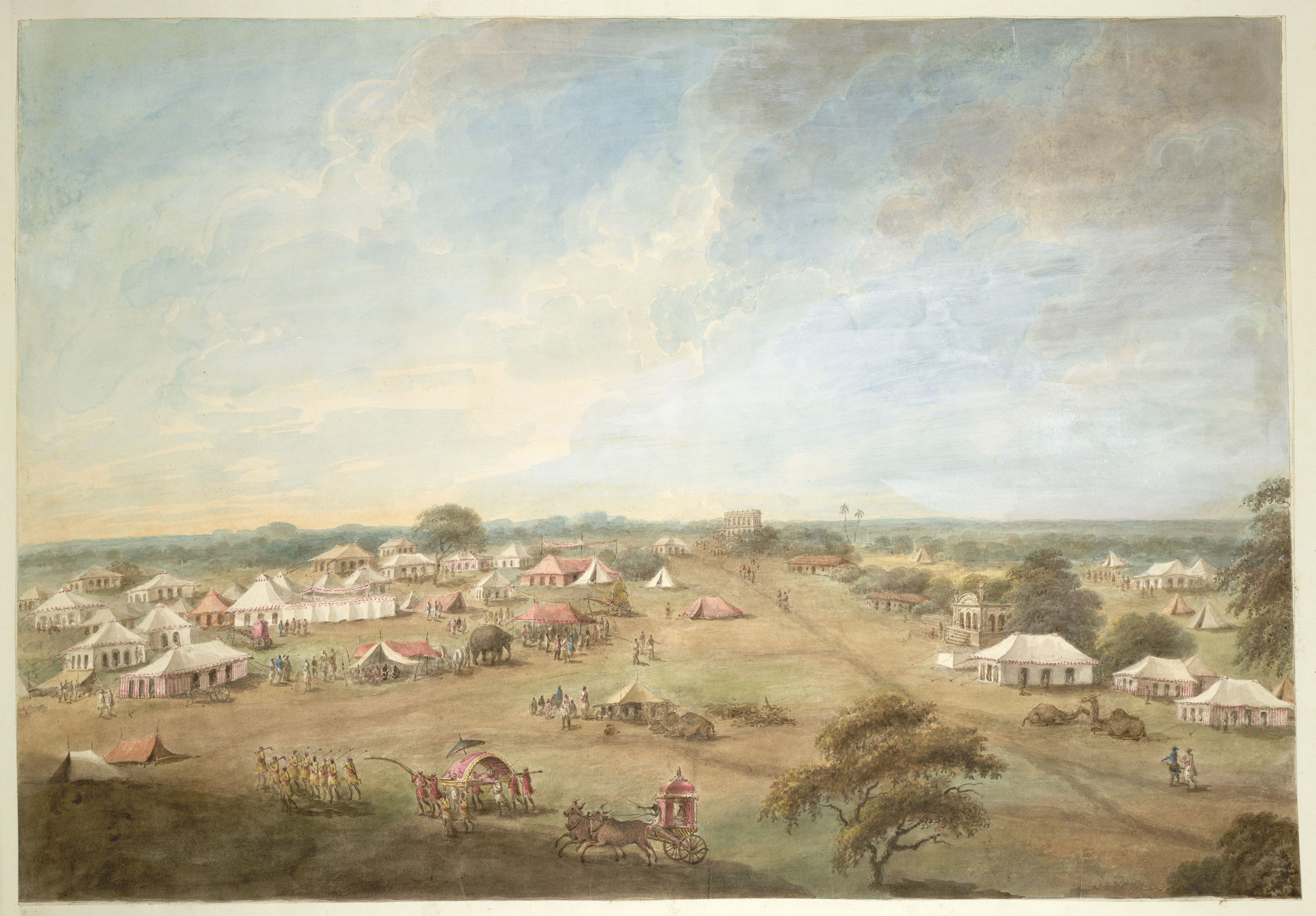 Watercolour of a Mughal encampment from 'Views by Seeta Ram from Mohumdy to Gheen Vol. V' produced for Lord Moira, afterwards the Marquess of Hastings, by Sita Ram between 1814-15. Marquess of Hastings, the Governor-General of Bengal and the Commander-in-Chief (r.1813-23), was accompanied by artist Sita Ram (flourished c.1810-22) to illustrate his journey from Calcutta to Delhi between 1814-15. Moradabad, in Uttar Pradesh, was founded around 1625 by Rustam Khan, the governor of Katehr, who named it after the imperial prince Murad Bakhsh. The Afghan Rohillas acquired Moradabad in 1740 and controlled the city until 1773 when it passed to control of the Nawab of Awadh. Nawab Shuja ud-Daula of Awadh (r.1753-1775) subsequently ceeded part of his territory including Moradabad to the Britsh in 1801. View of a large Mughal encampment. Inscribed below: 'Camp of the Deputation from the King of Delhi at Moradabad.'